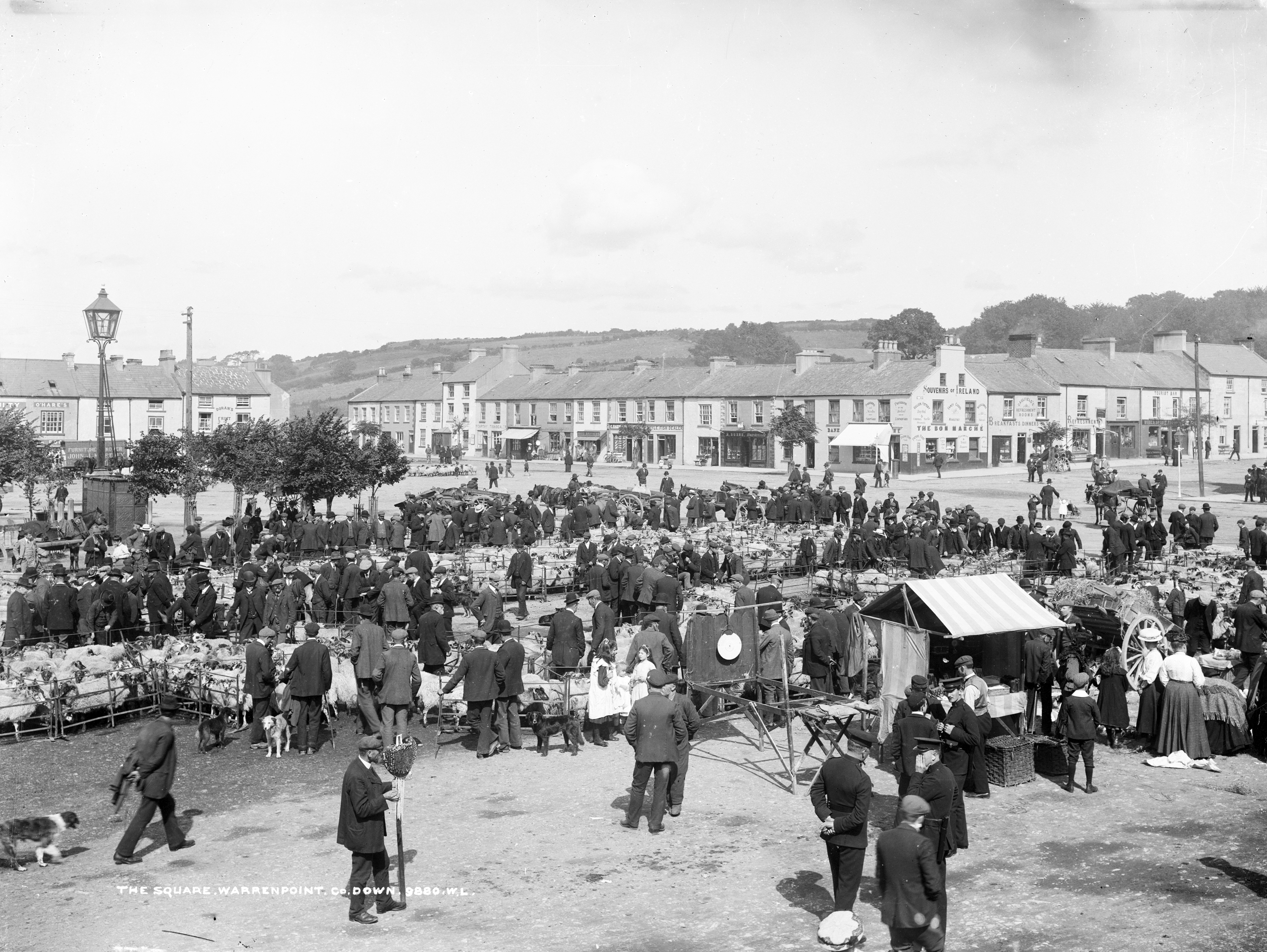 Think this is one of our best market shots ever! All of human / animal / commercial life is here - I'd recommend zooming in and exploring every inch (or pixel) of it… Think we have our first Furniture Remover - wish the name was clearer on the "van". And would really love to know what's going on with the man holding the elaborately beaded pole? We might have a little reward for anyone who comes up with the most convincing (or even most entertaining) answer as to who or what he was... Date: Circa 1902 to 1907?? NLI Ref.: L_ROY_09880